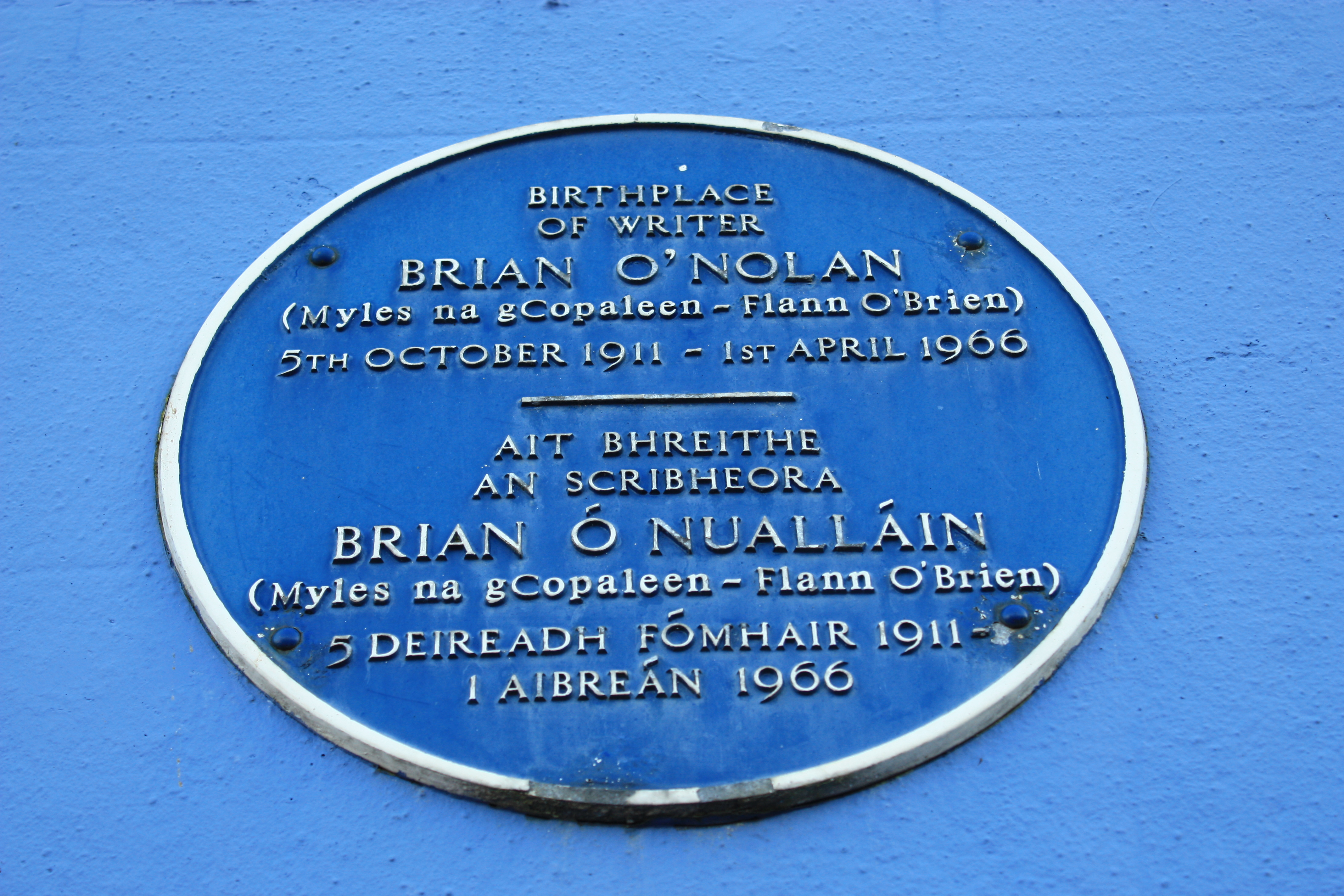 Brian O'Nolan blue plaque, Bowling Green, Strabane, County Tyrone, Northern Ireland, January 2010